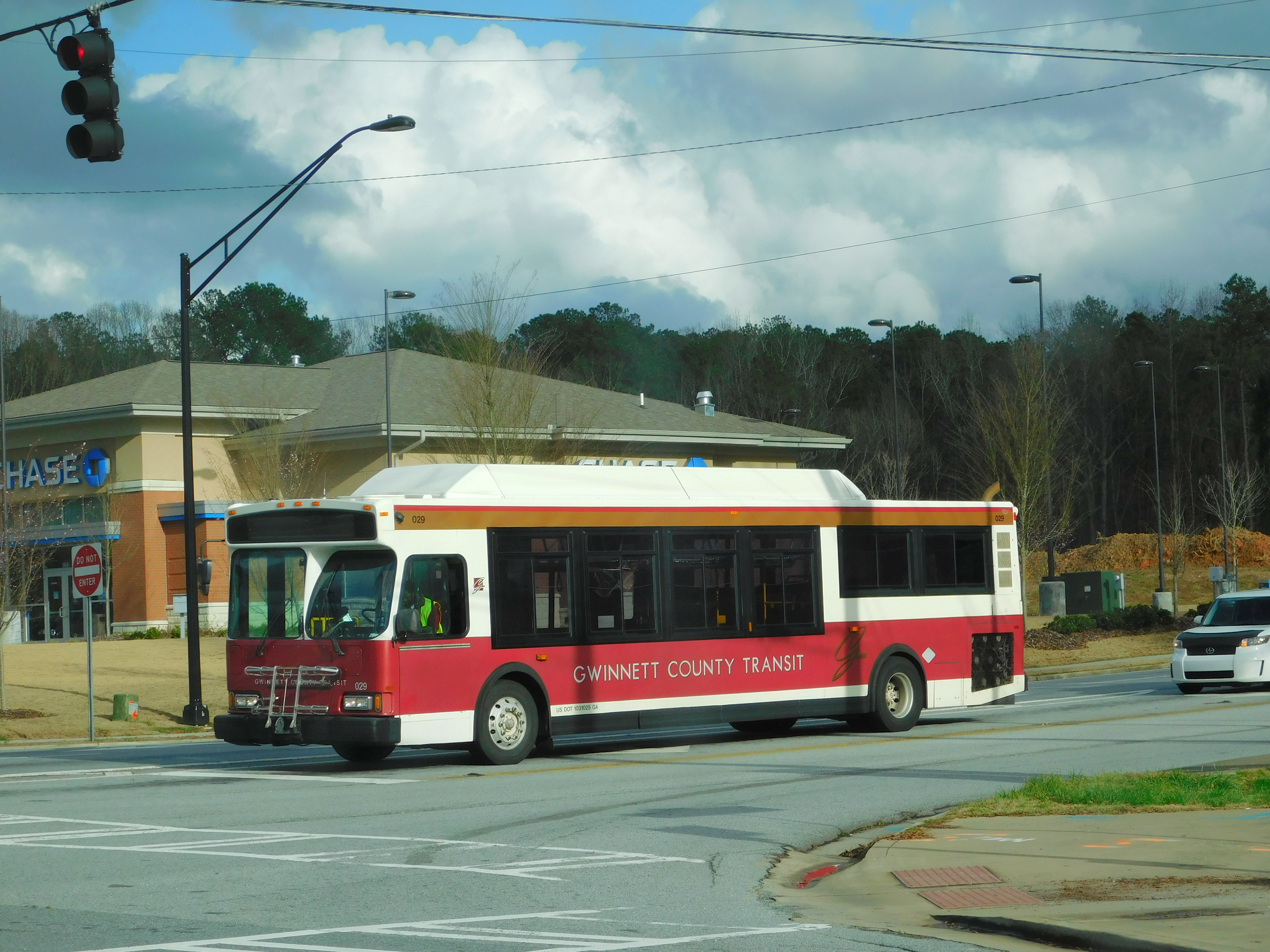 Gwinnett County transit Orion VII CNG 029 on the 35 Bus on Peachtree Corners.